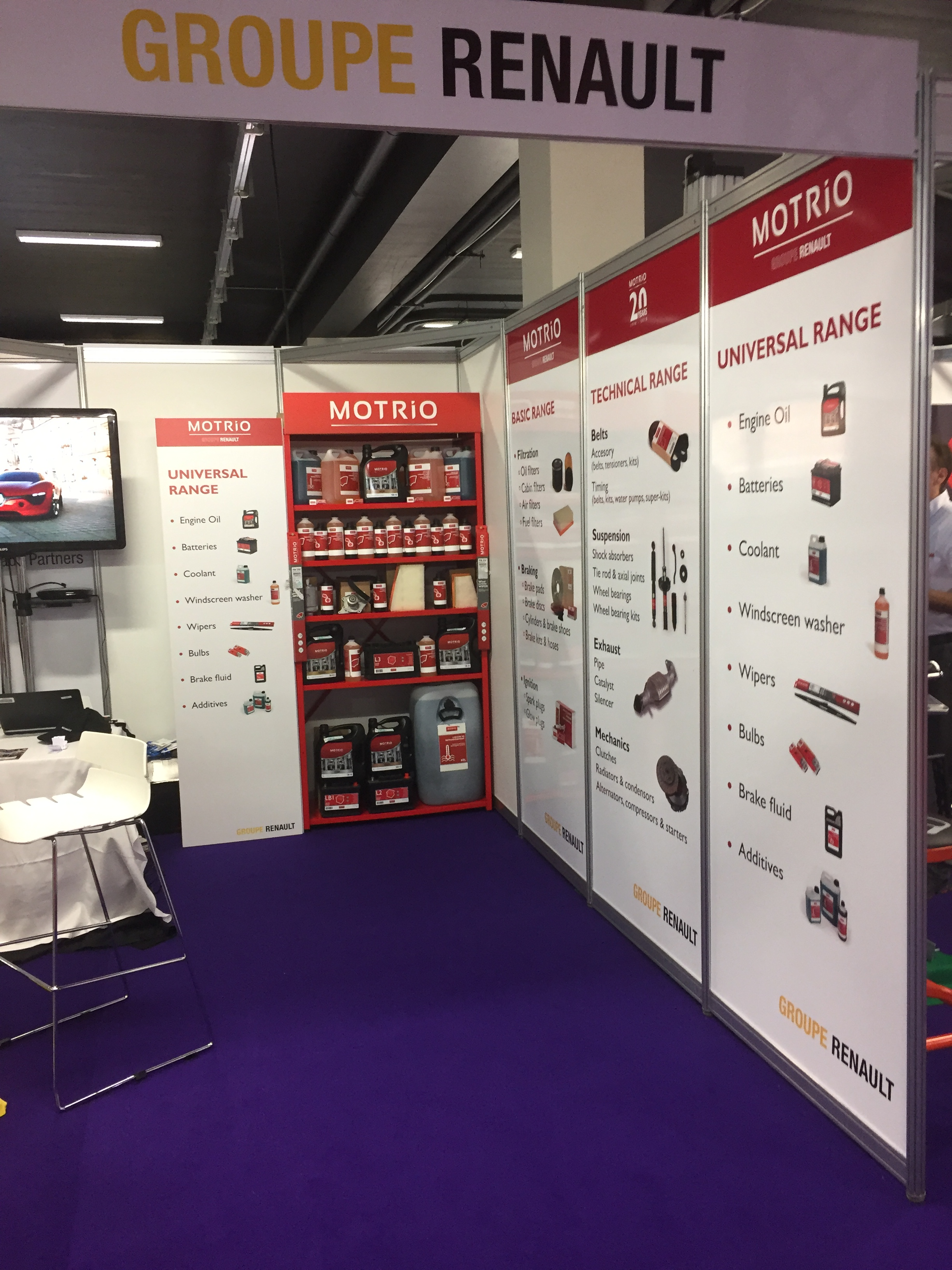 Motrio Ireland Trade Fair 2018